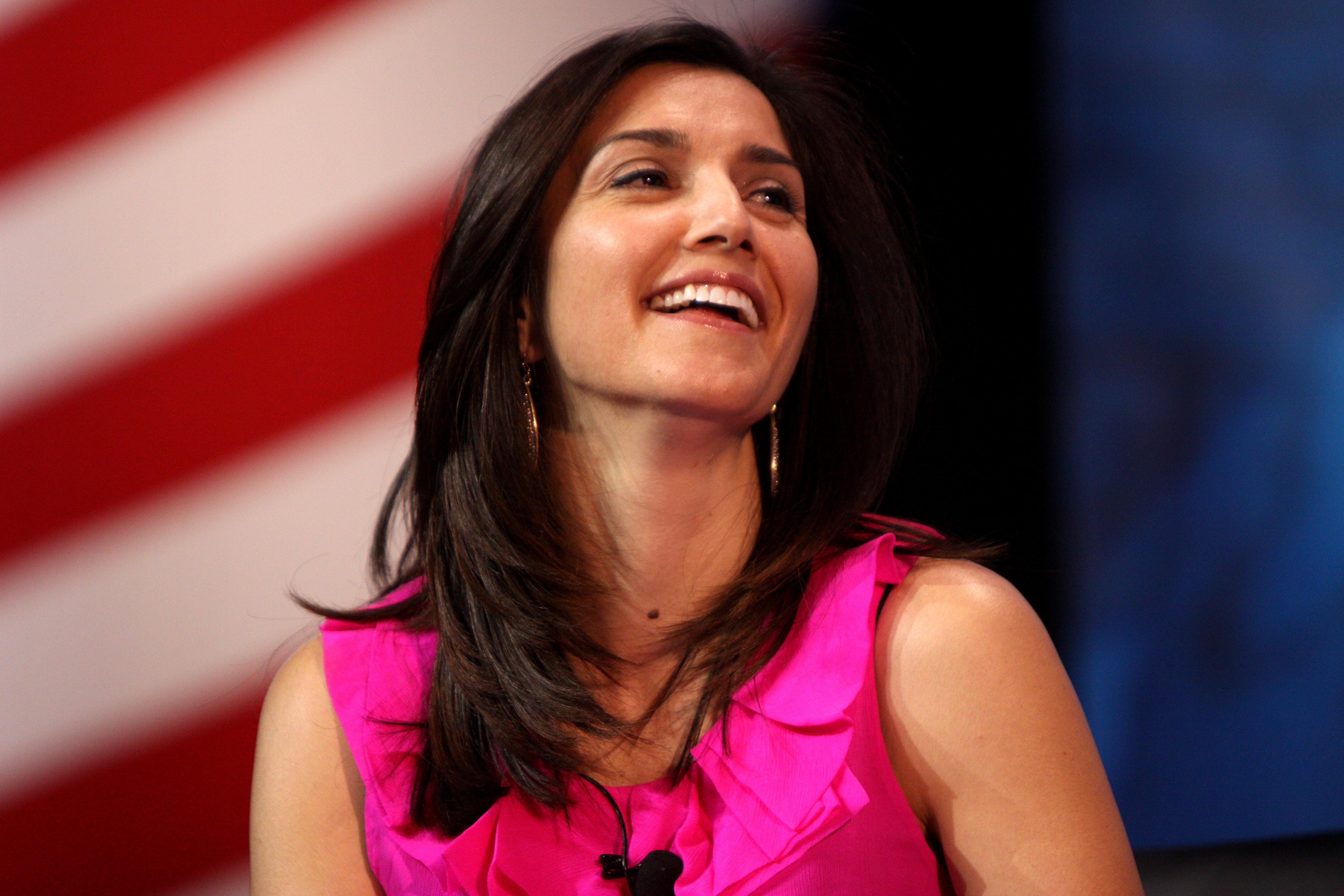 Rachel Campos-Duffy speaking at the 2013 Conservative Political Action Conference (CPAC) in National Harbor, Maryland.